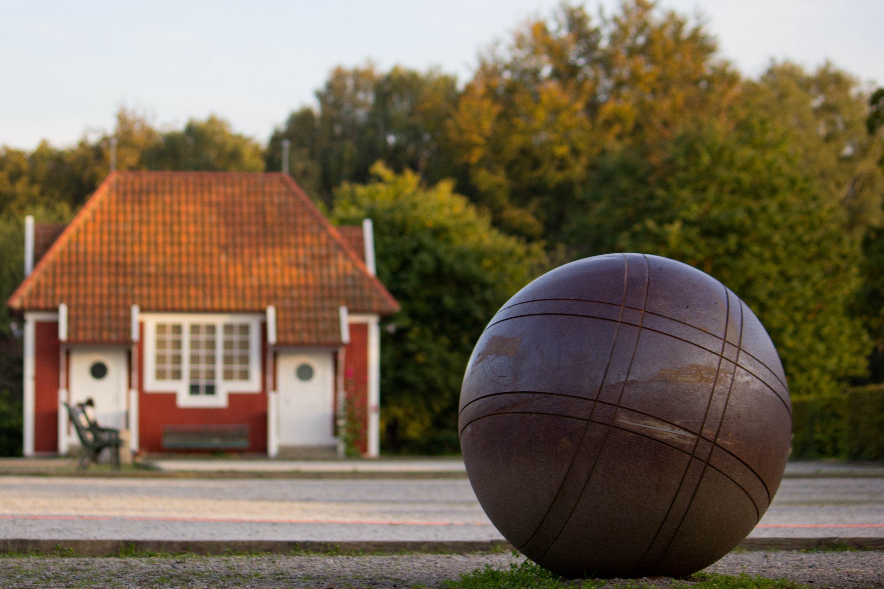 Pildammsparken, Malmö, Sweden - Boule sculpture at the court